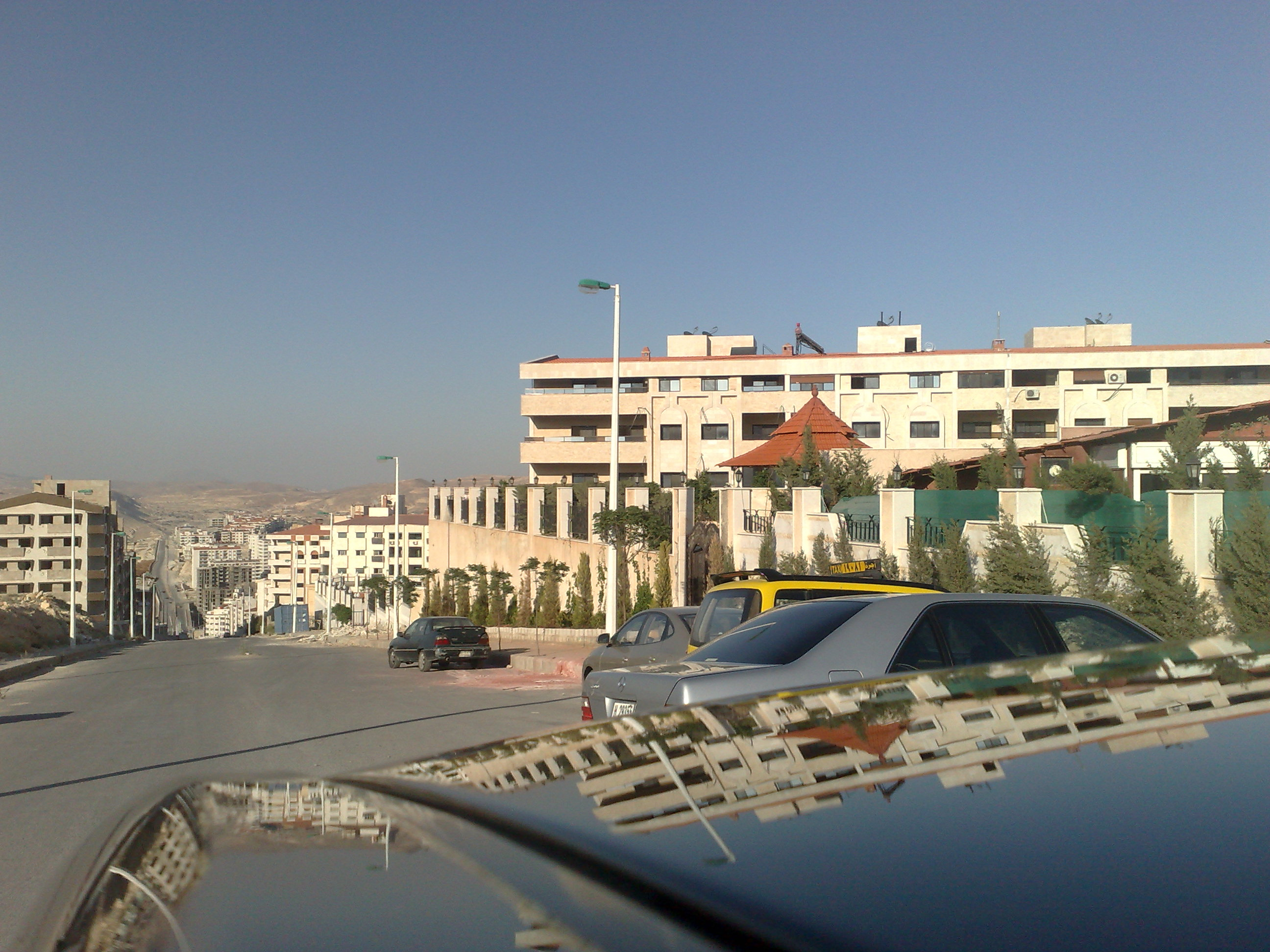 Residential homes in Dummar